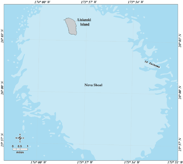 Bathymetric map of Lisianski Island with Neva Shoals, Northwestern Hawaiian Islands